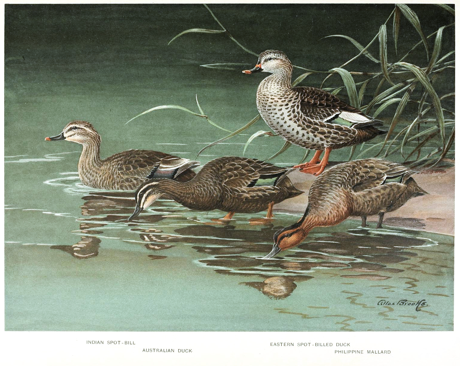 Anas poecilorhyncha, zonorhyncha and other ducks